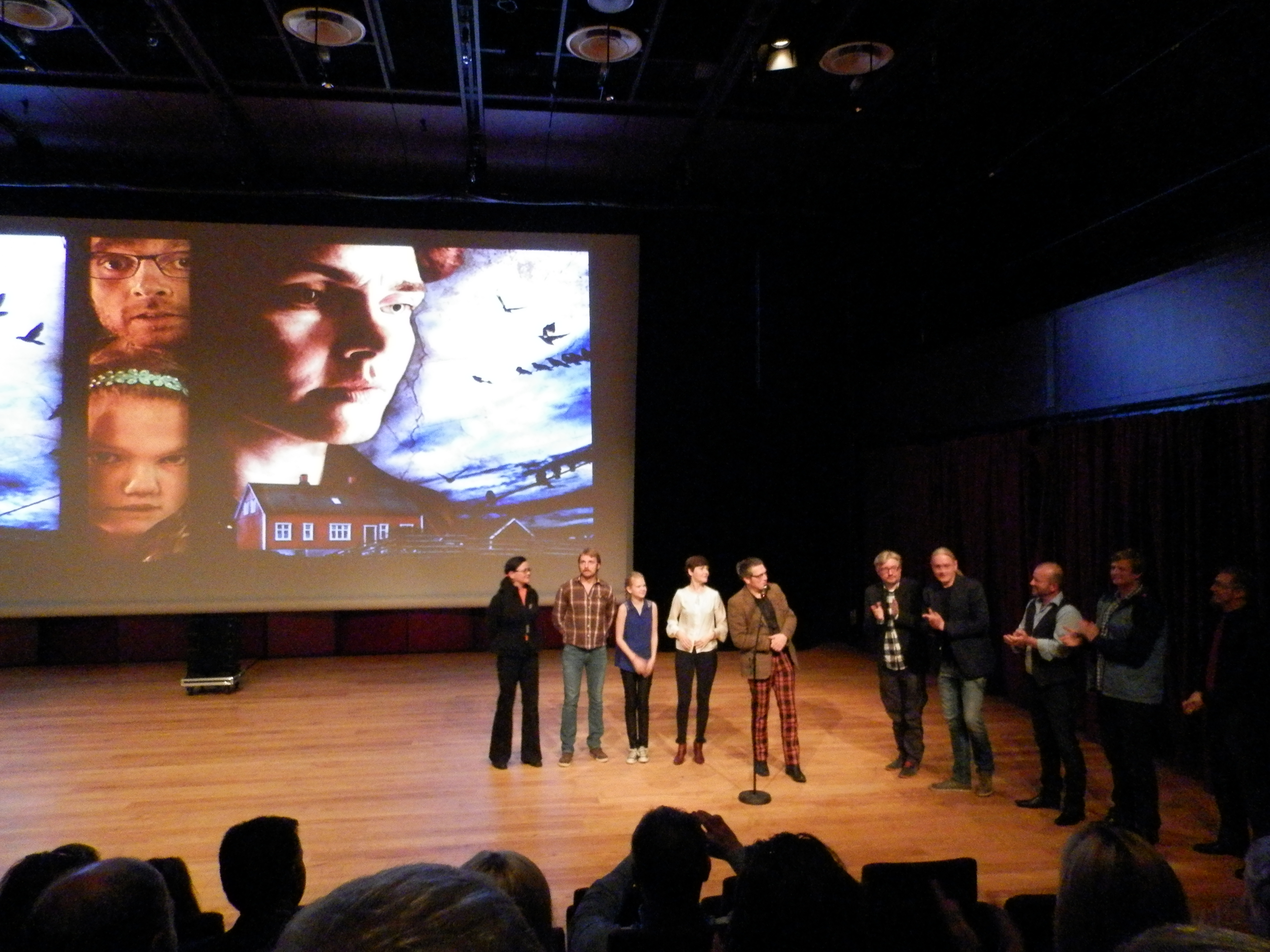 Ludo is a film by Katrin Ottarsdóttir. It was showed for the first time on 11 September 2014 in her hometown Tórshavn, Faroe Islands. The film is a psycolocal thriller. This photo was taken at the premiere.